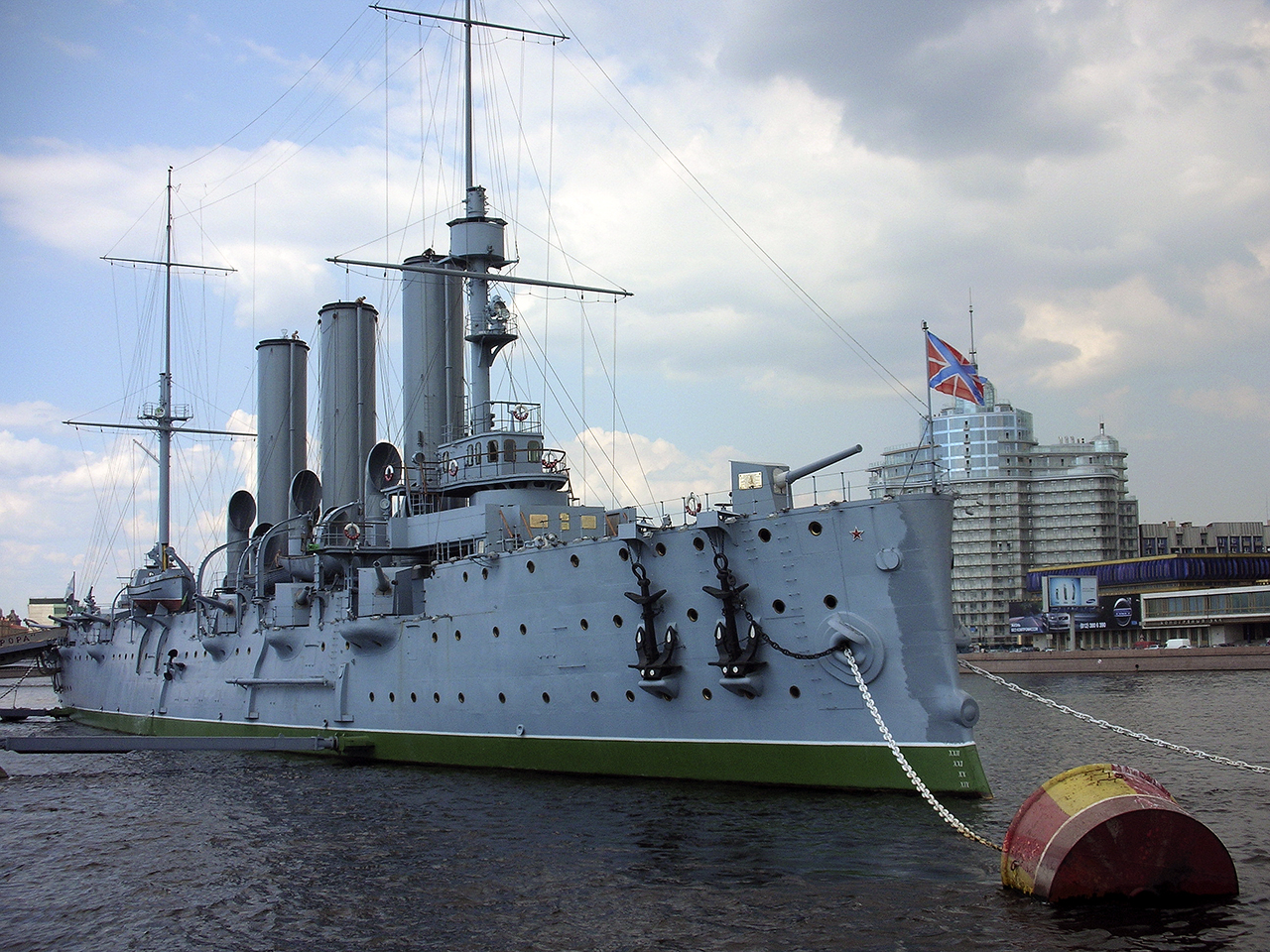 Cruiser Aurora in Saint Petersburg Photo by Mathias Skoglund